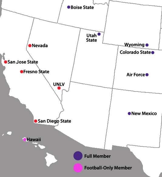 Updated member location map with grey background and black names